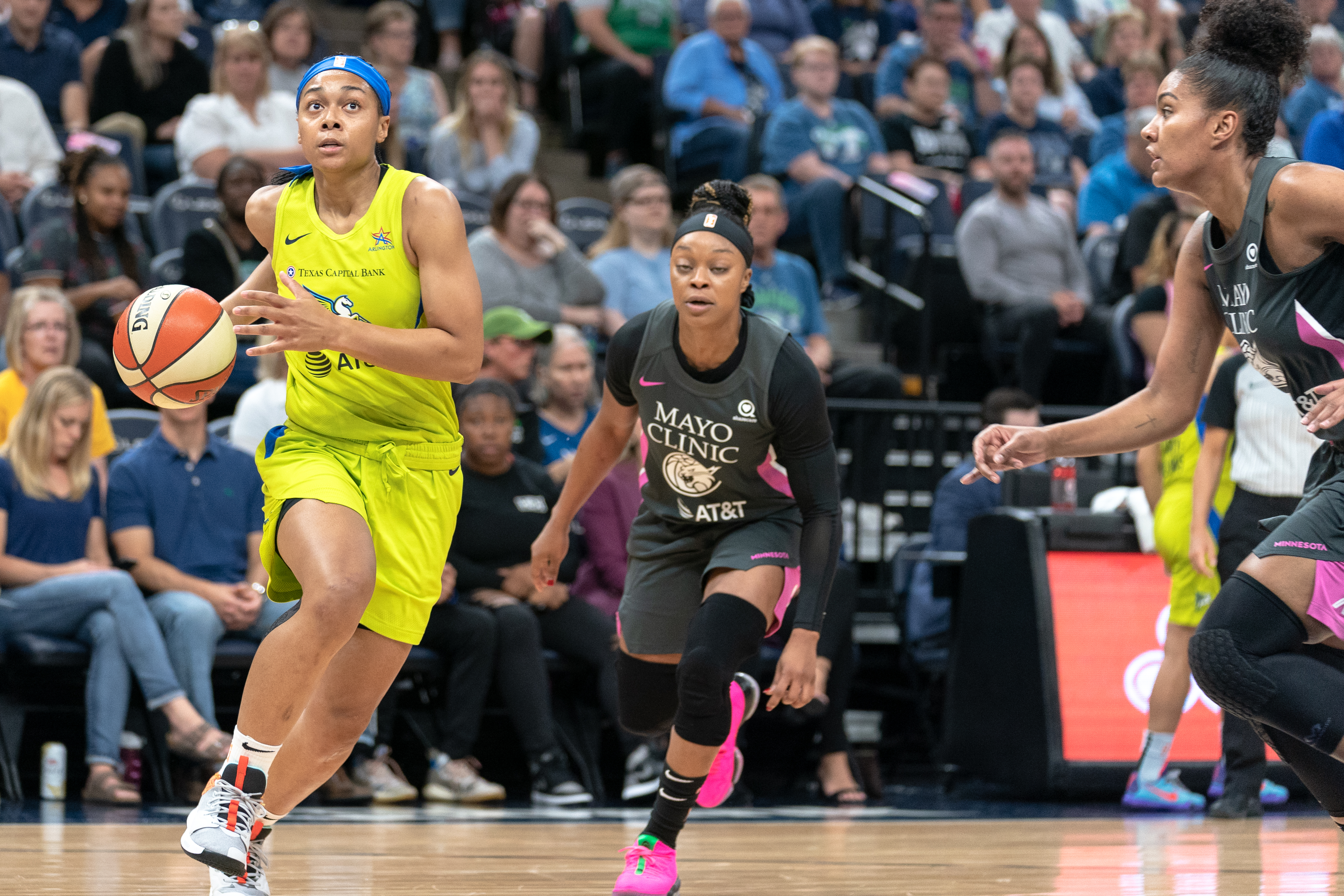 Dallas Wings player Allisha Gray in a game against the Minnesota Lynx